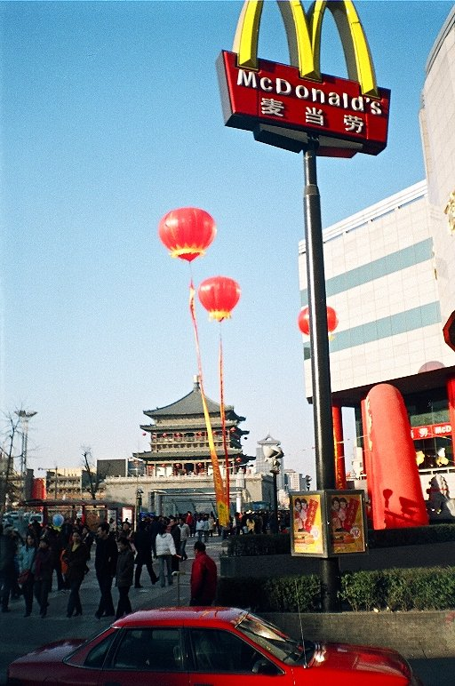 A McDonald's sign overshadows the ancient Bell Tower in the centre of Xi'an.